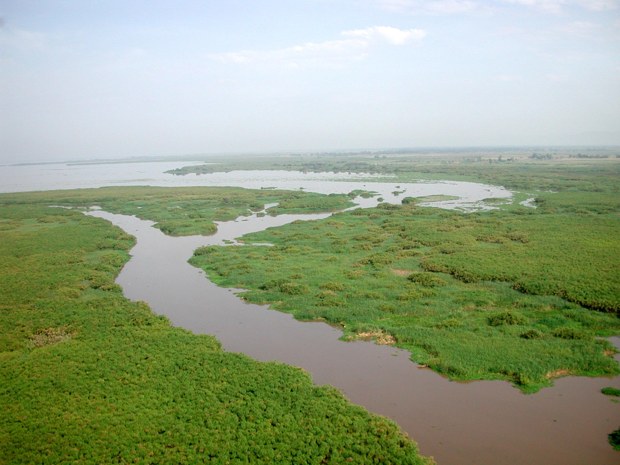 Nyando mouth at the inflow into Lake Victoria, Kenya.